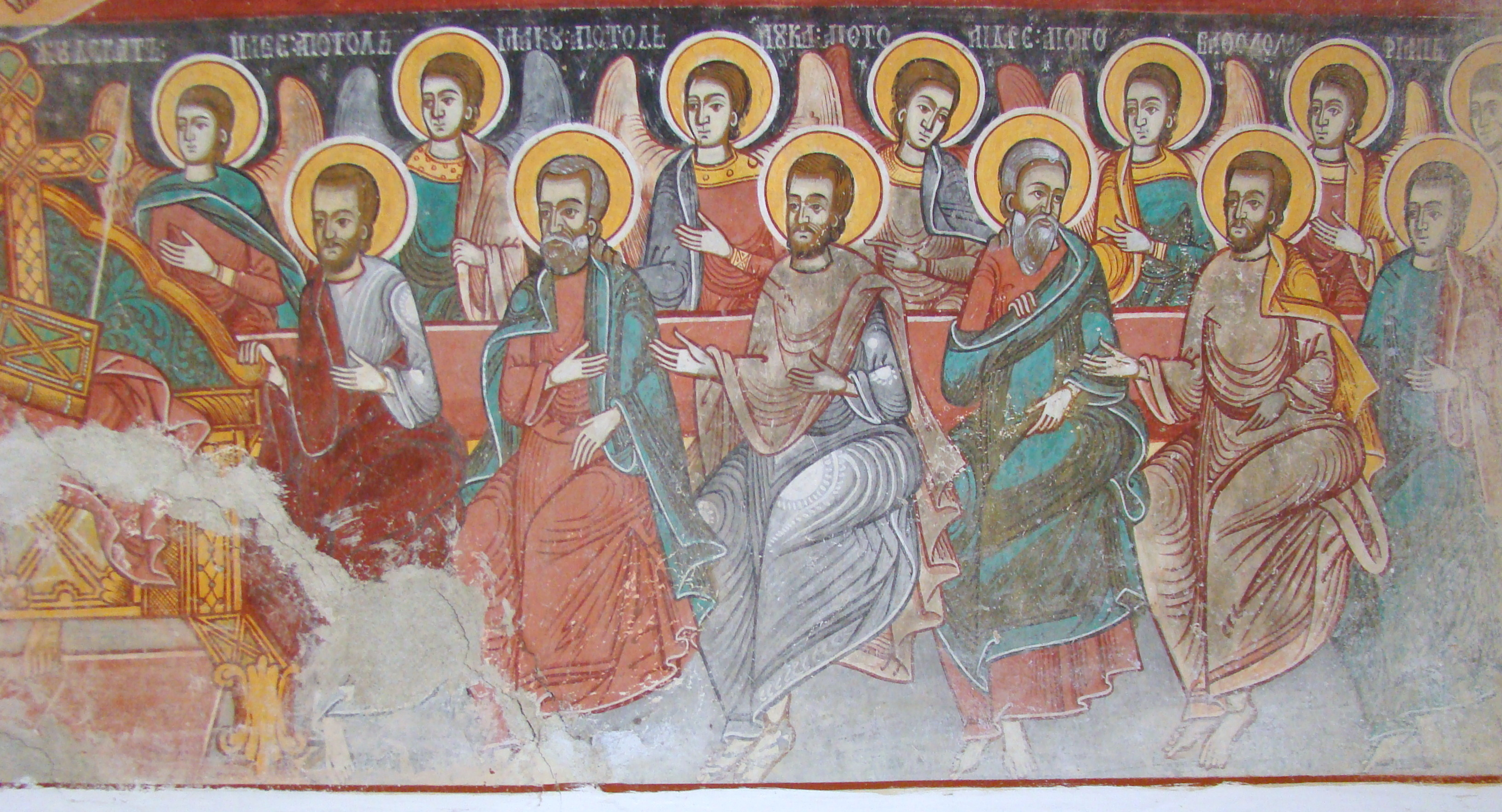 The old orthodox church „Dormition of the Theotokos” in Săsăuș, Sibiu county, Romania